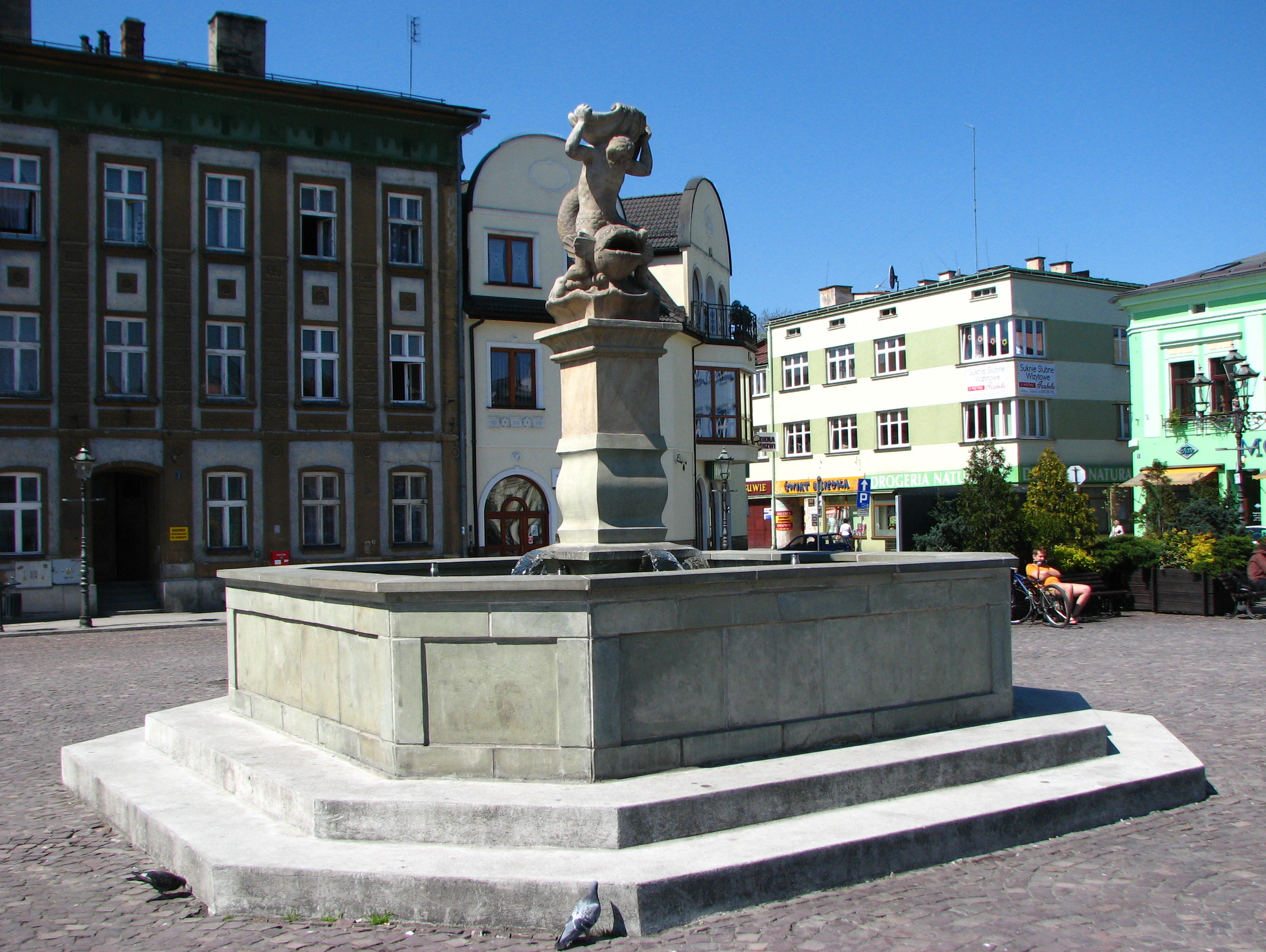 Skoczow - fountain on the Market Square with the statue of Jonah (called Triton) from the end of 18th century